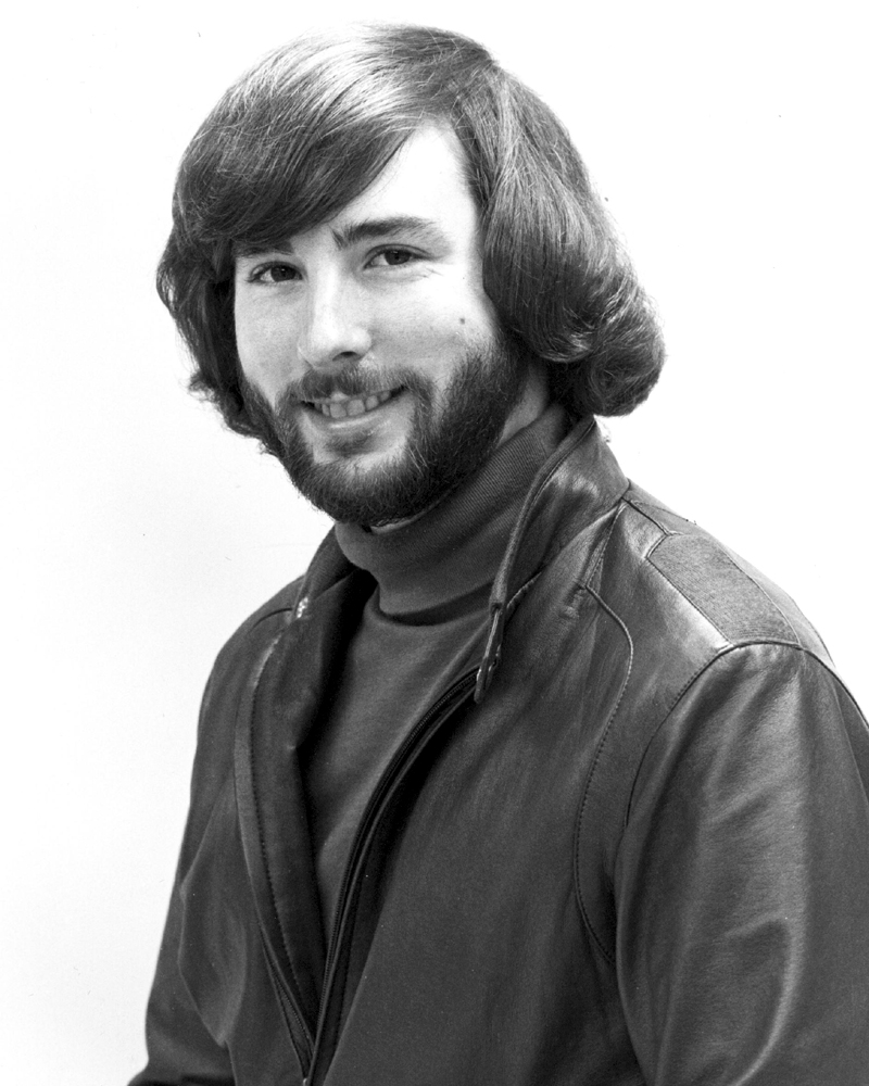 Edu-Ware publicity photo of David Mullich, 1982.